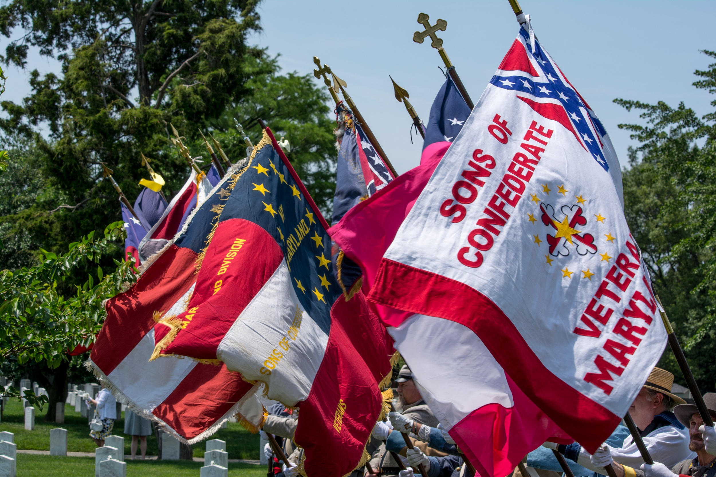 Confederate flags flap in the breeze during Confederate Memorial Day exercises at the Confederate Memorial in Arlington National Cemetery in Arlington County, Virginia, in the United States on June 8, 2014. The color guard was provided by the Maryland Division, Sons of Confederate Veterans (SCV).